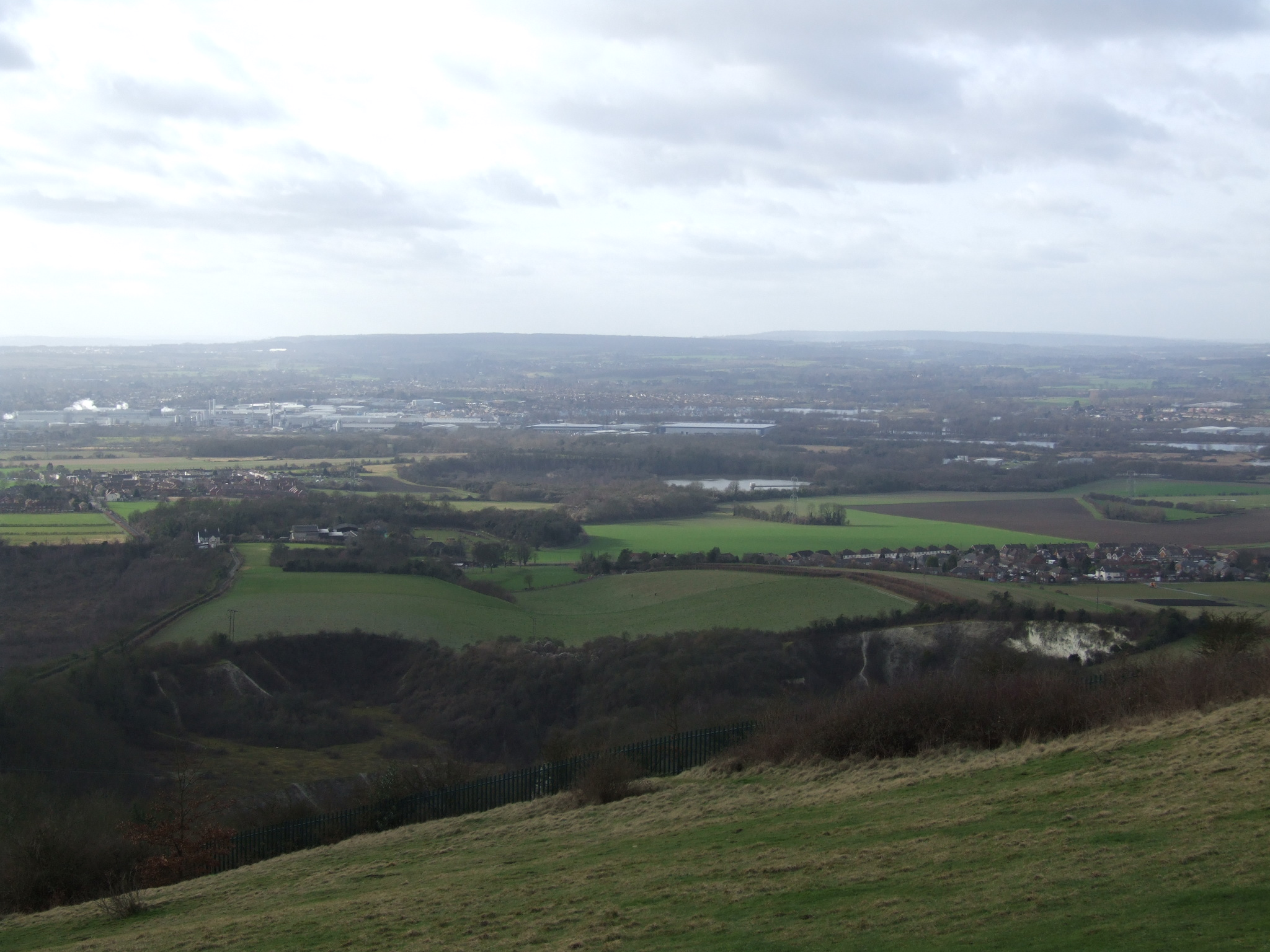 Blue Bell Hill Picnic site on the North Downs in Kent gives a view over the Medway Gap Looking south west over Eccles, Kent, the River Medway, Lower Cut, Middle Cut, Upper Cut. The Aylesford paper mills then the Greensand at Mereworth.